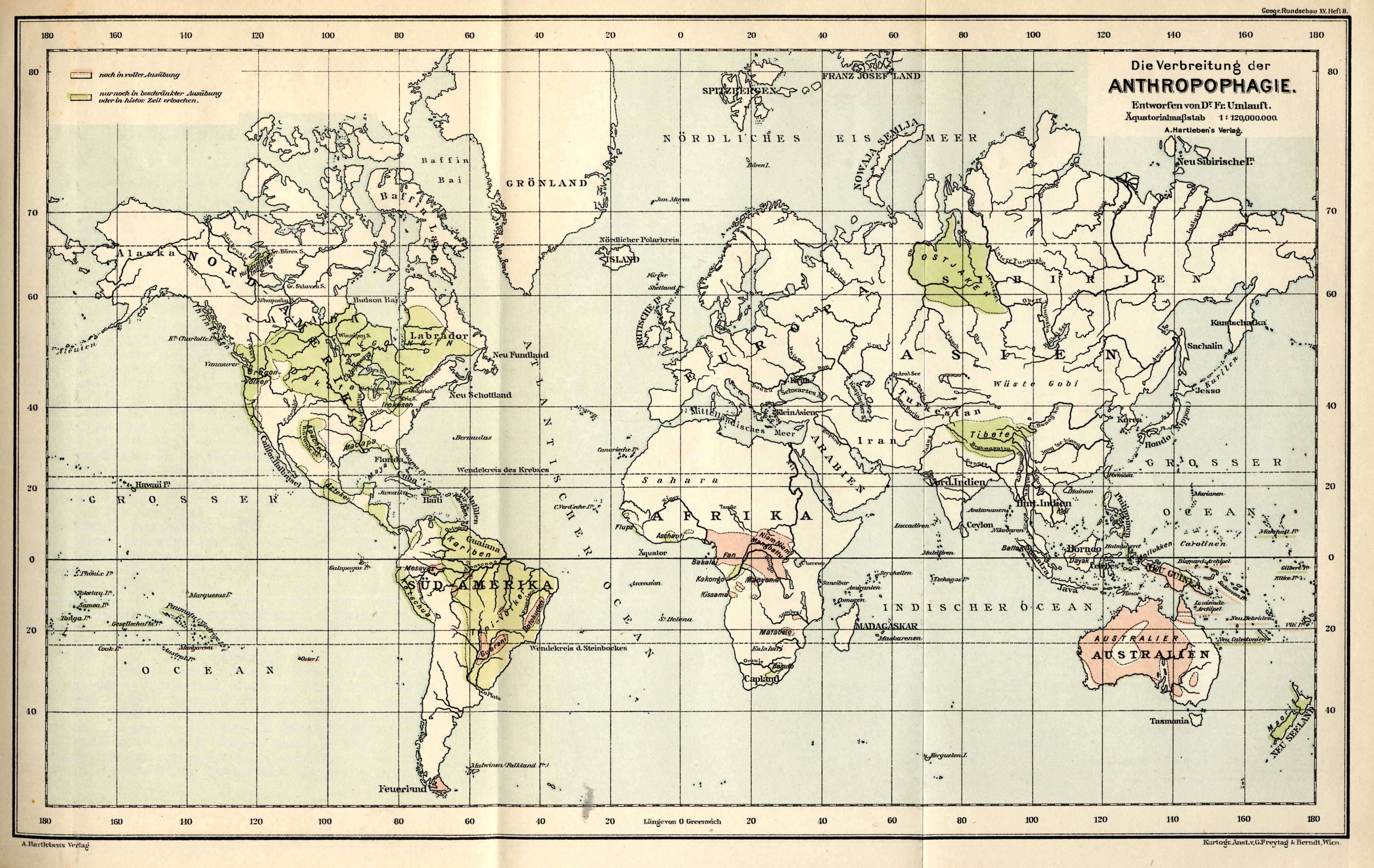 The spread of human cannibalism (anthropophagy) in the late 19th century. The text to this map: 1, 2, 3, 4, 5. Legend indicates areas with full exercise of cannibalism (pink) and areas with limited or historic exercise (green).